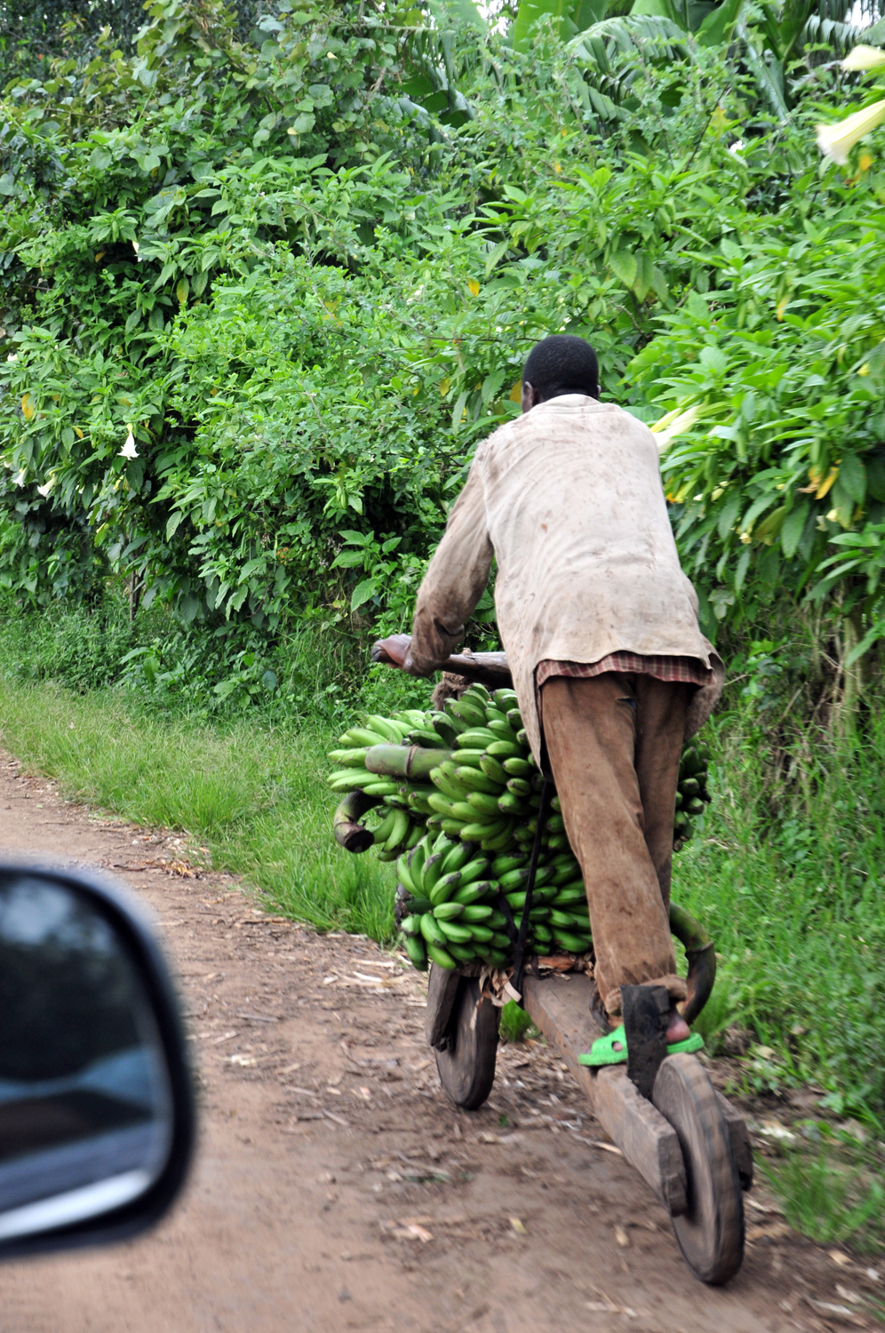 Pic by Neil Palmer (CIAT). Transporting bananas to market in the North Kivu province of DR Congo. Please credit accordingly.